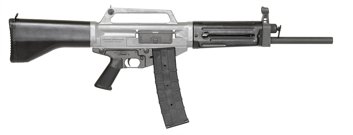 USAS12 shotgun, 12 gauge semi-auto. (Photo by Oleg Volk) For publication use, please contact me first.